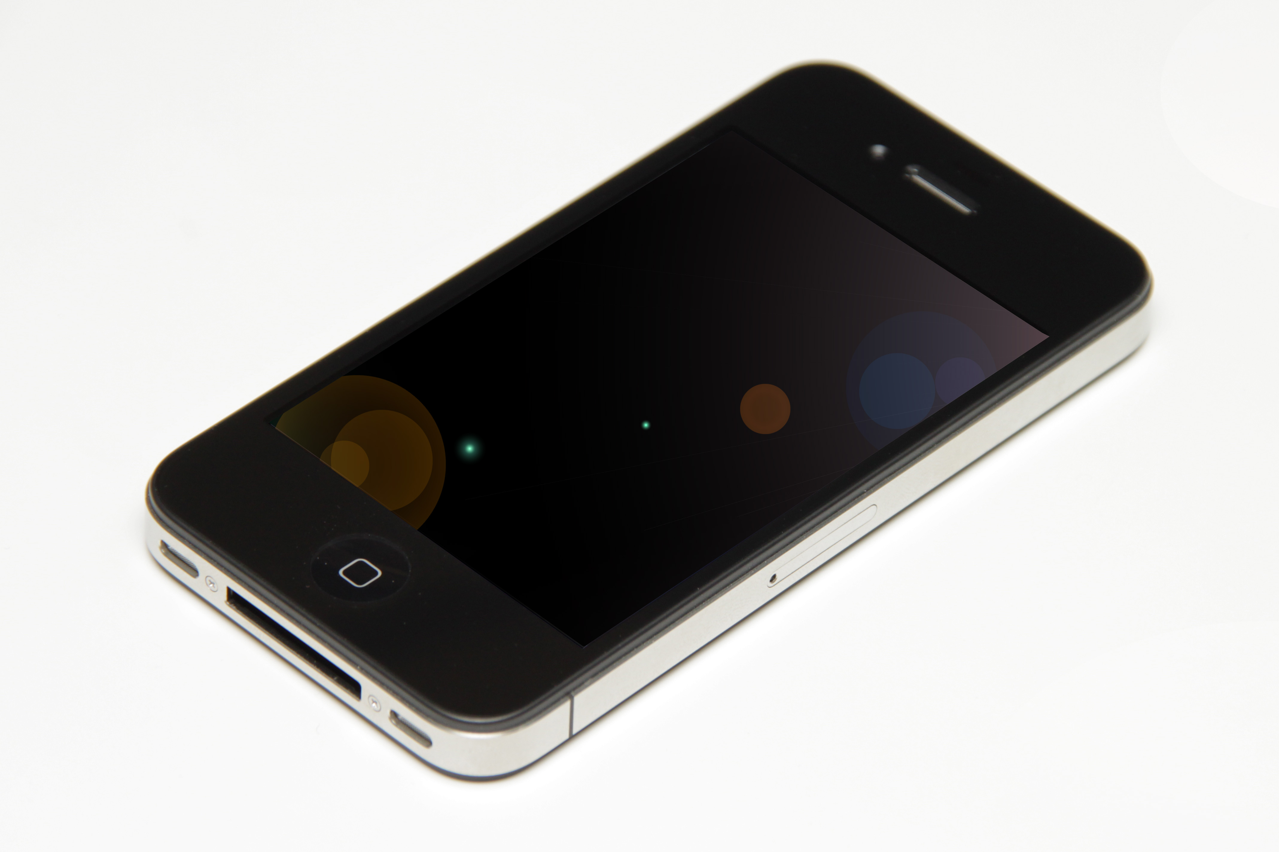 iPhone 4.